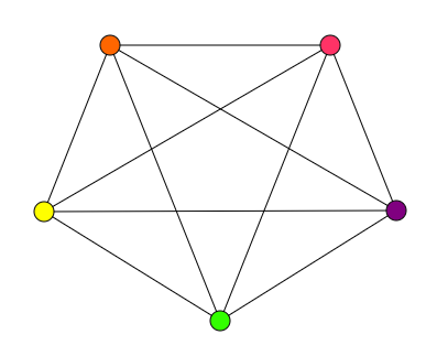 XH(K_5)=5